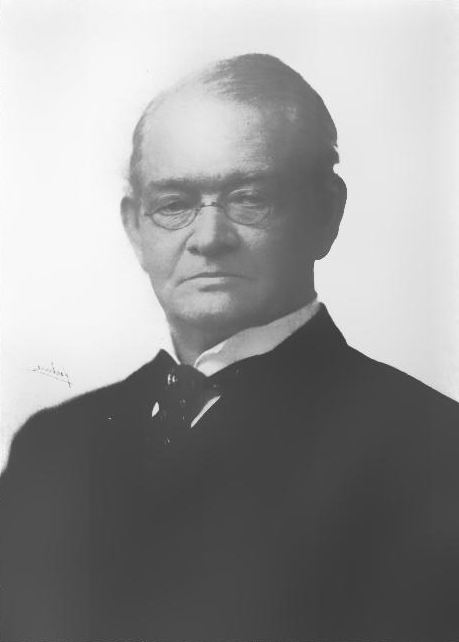 John V. Farwell as he appears in his obituary in Dry Goods Reporter (1908)